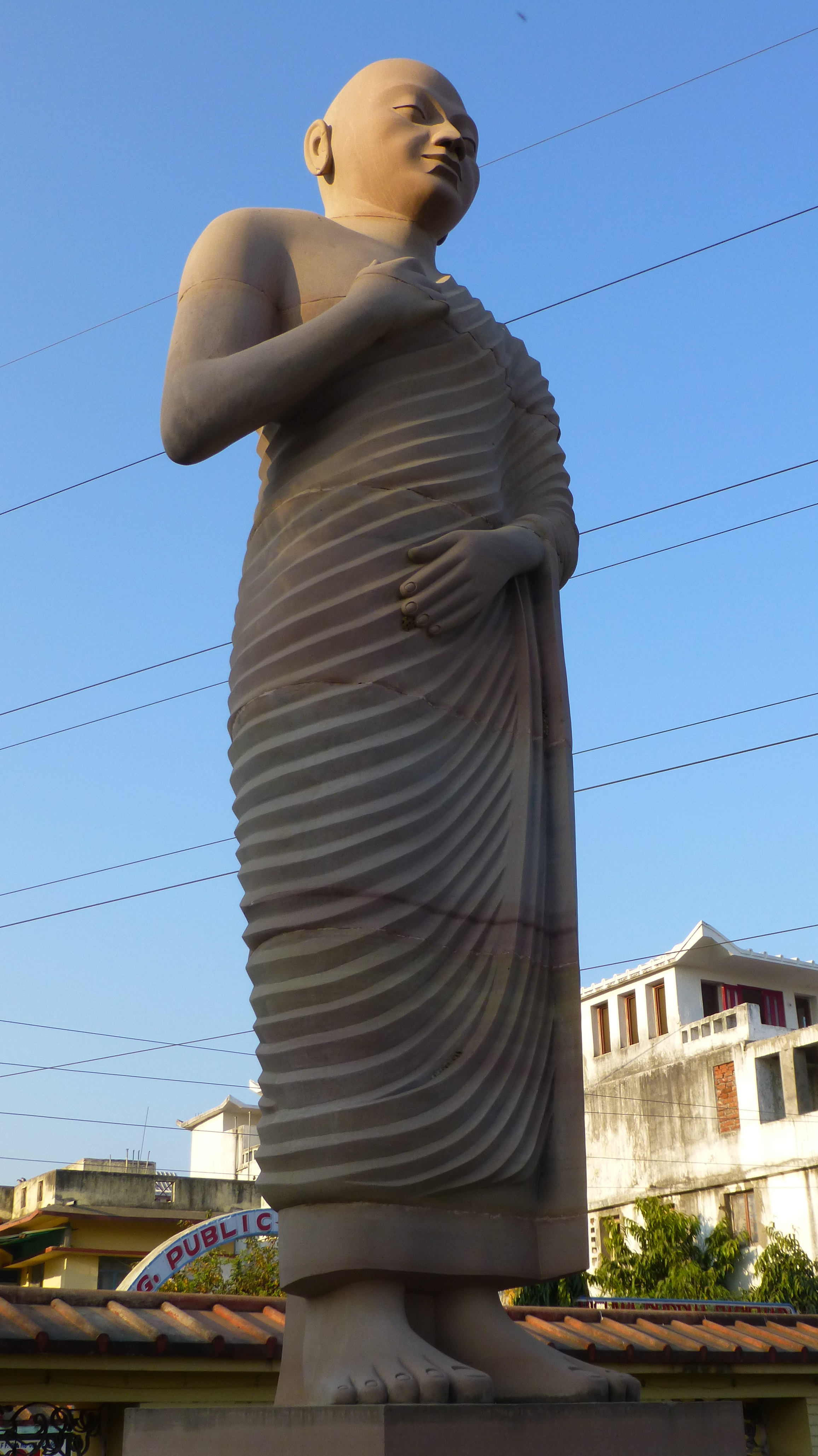 08 Rahula, in Bodhgaya, Bihar Photograph of the Daibutsu Buddha statue at Bodh Gaya in Bihar taken by Anandajoti.